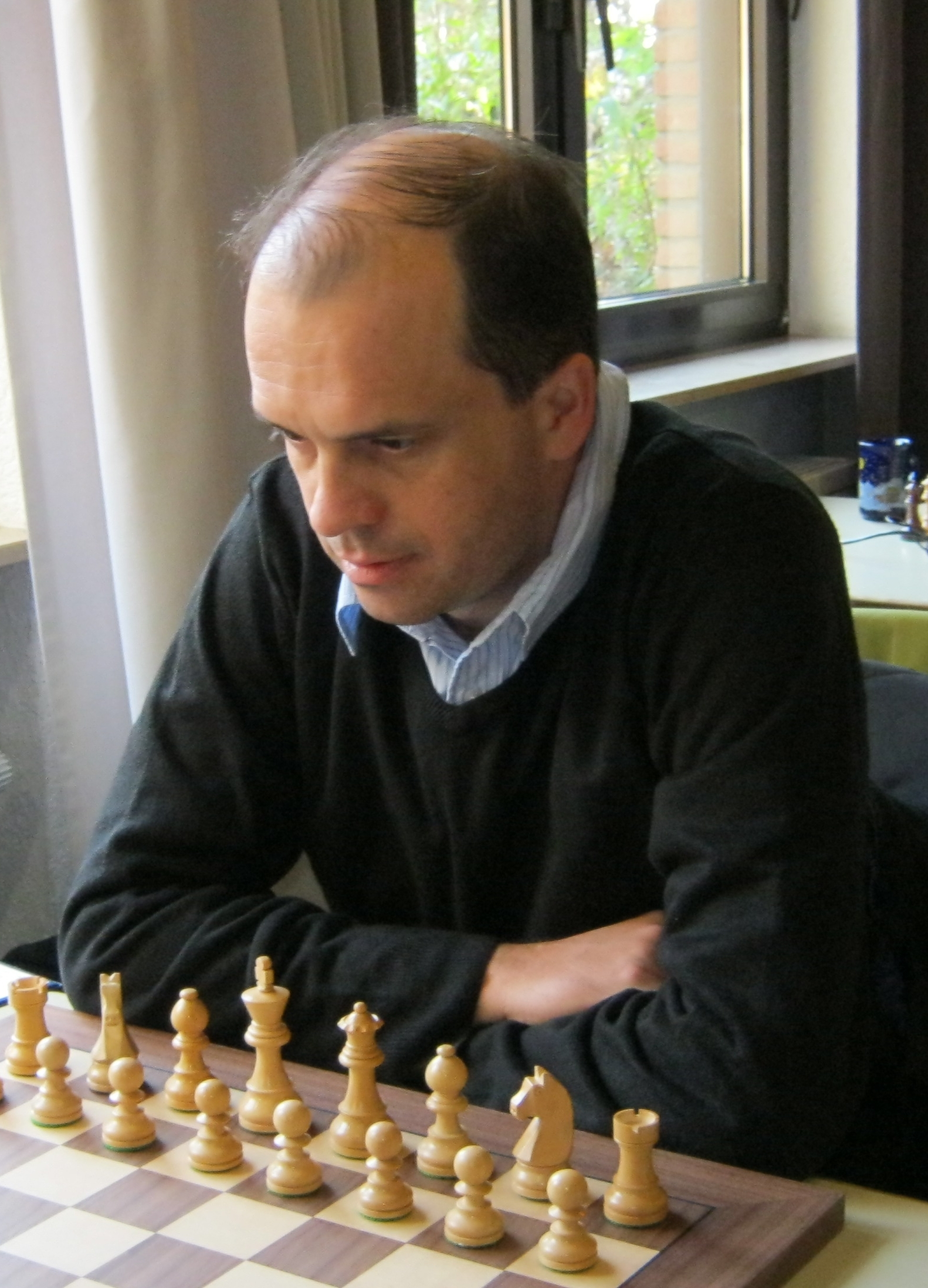 Zbyněk Hráček, Czech chess grandmaster